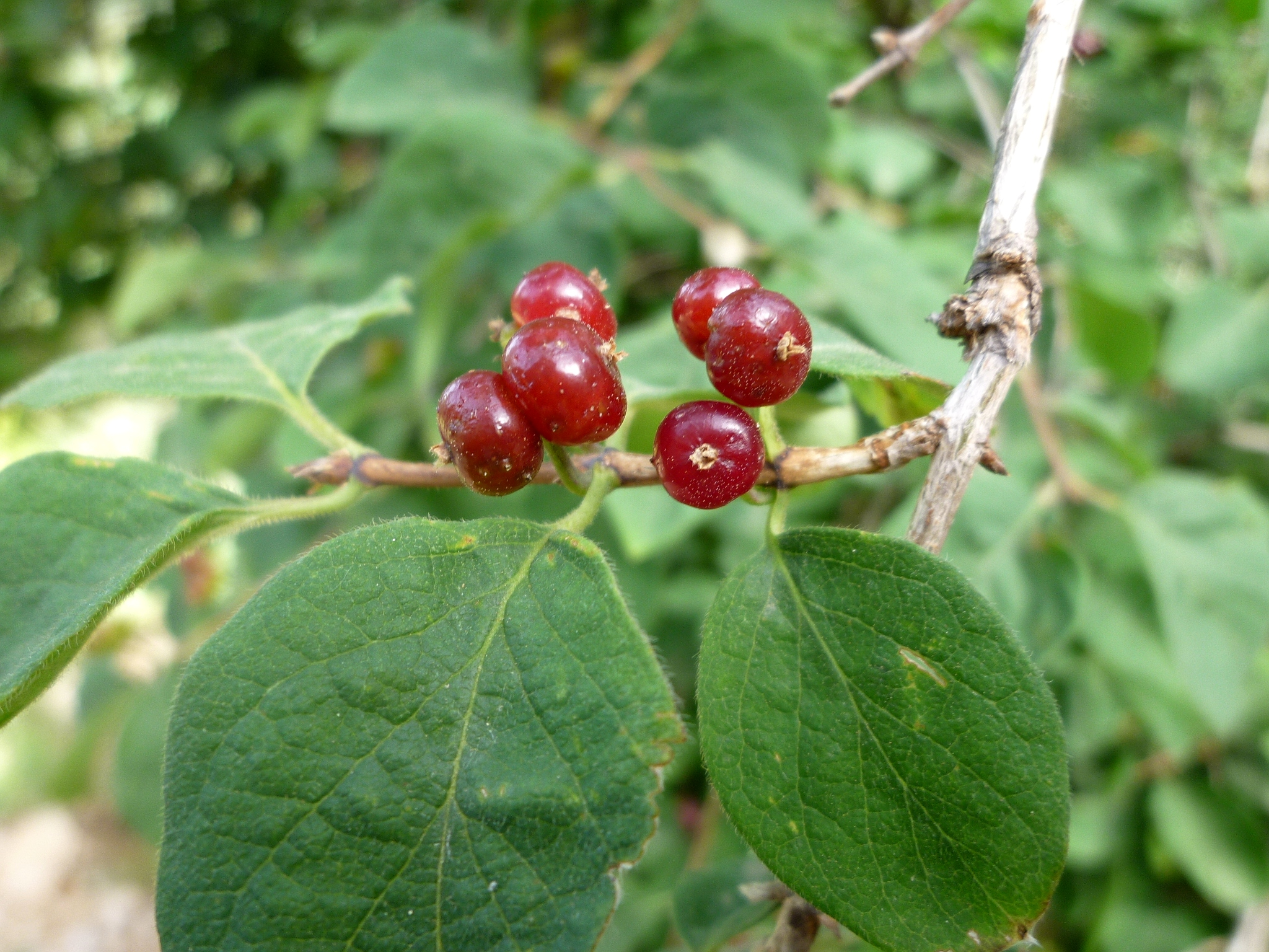 Lonicera xylosteum. In la Bòfia, Tuixén (Alt Urgell - Catalunya). To 1.590 m. altitude